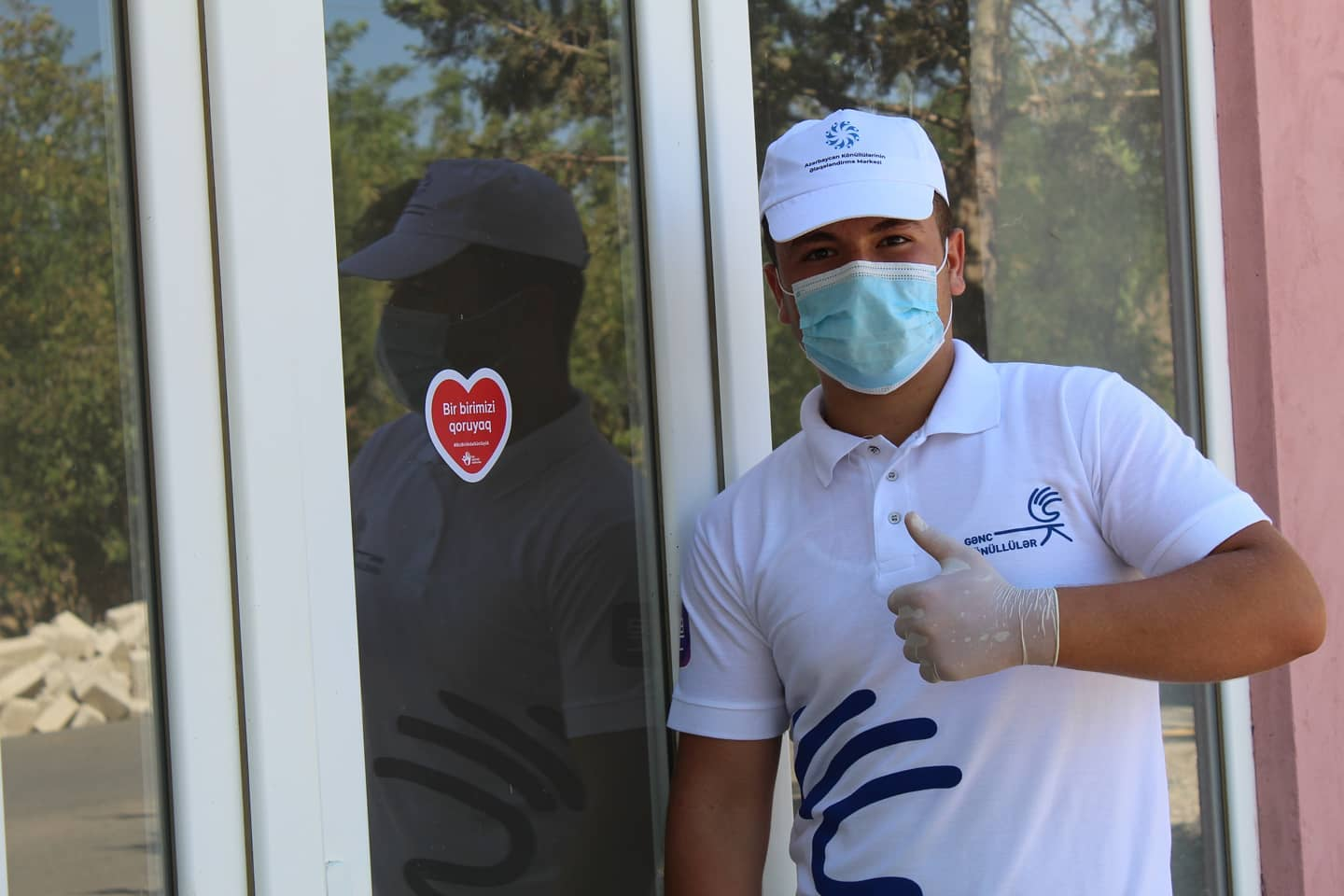 Gənc könüllümüz maarifləndirici tədbirlərdə